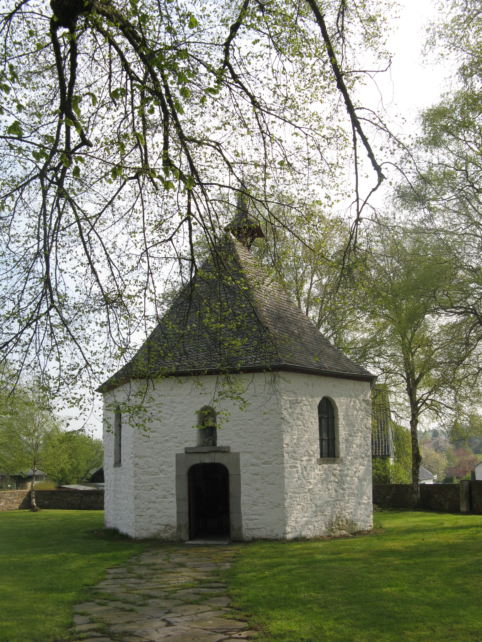 St. Mary's Chapel, Roetgen/Germany